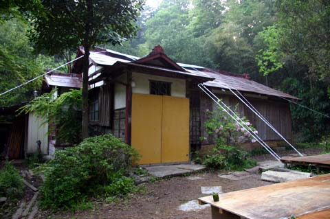 Picture of Kyu Sakamotos house in Ibaraki prefecture, Japan